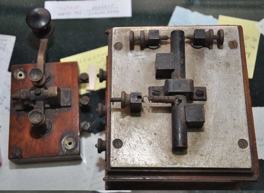 Old telegraph instruments morse key and morse sounder